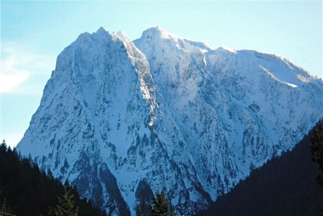 Mount Index in winter white seen from Highway 2